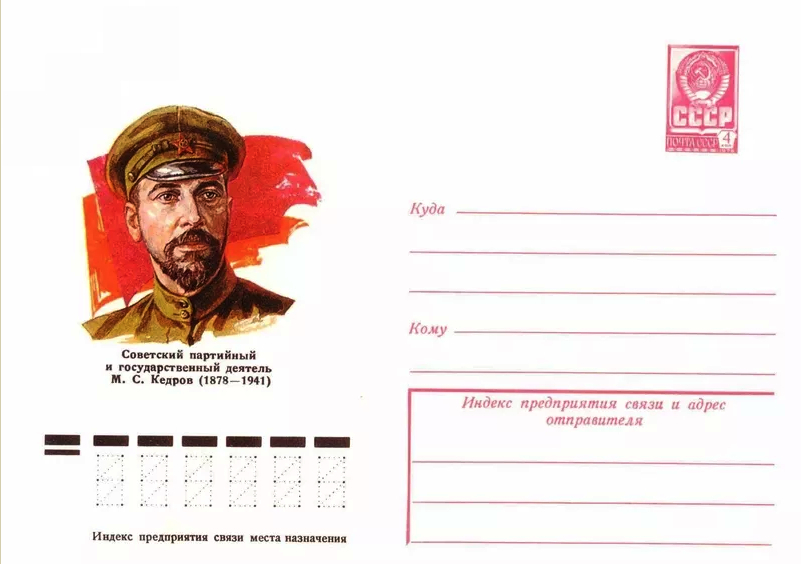 1978 Soviet postal cover featuring portrait of Mikhail Sergeevich Kedrov.